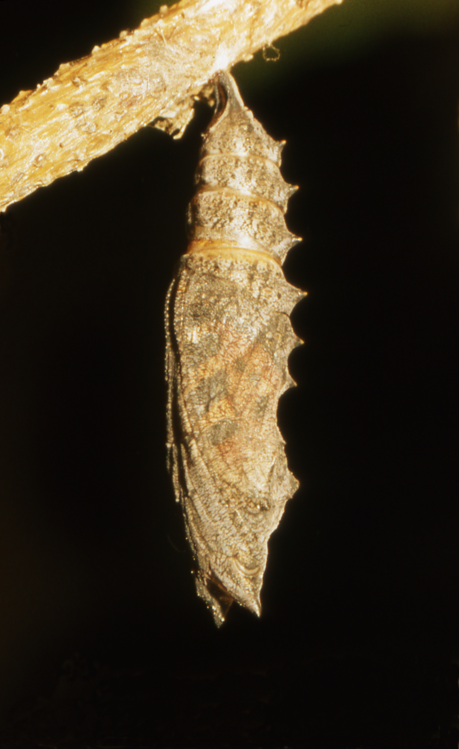 The picture shows a soon to hatch Small Tortoiseshell (Aglais urticae). The wing colors are already clearly visible through the pupal case. It was recorded over 20 years ago with a Voigtländer VSL-3, an adapted M42-M42 bellows and a standard lens. The exposure time was estimated. Light source was a slide projector REVUE Focus AS 33rd